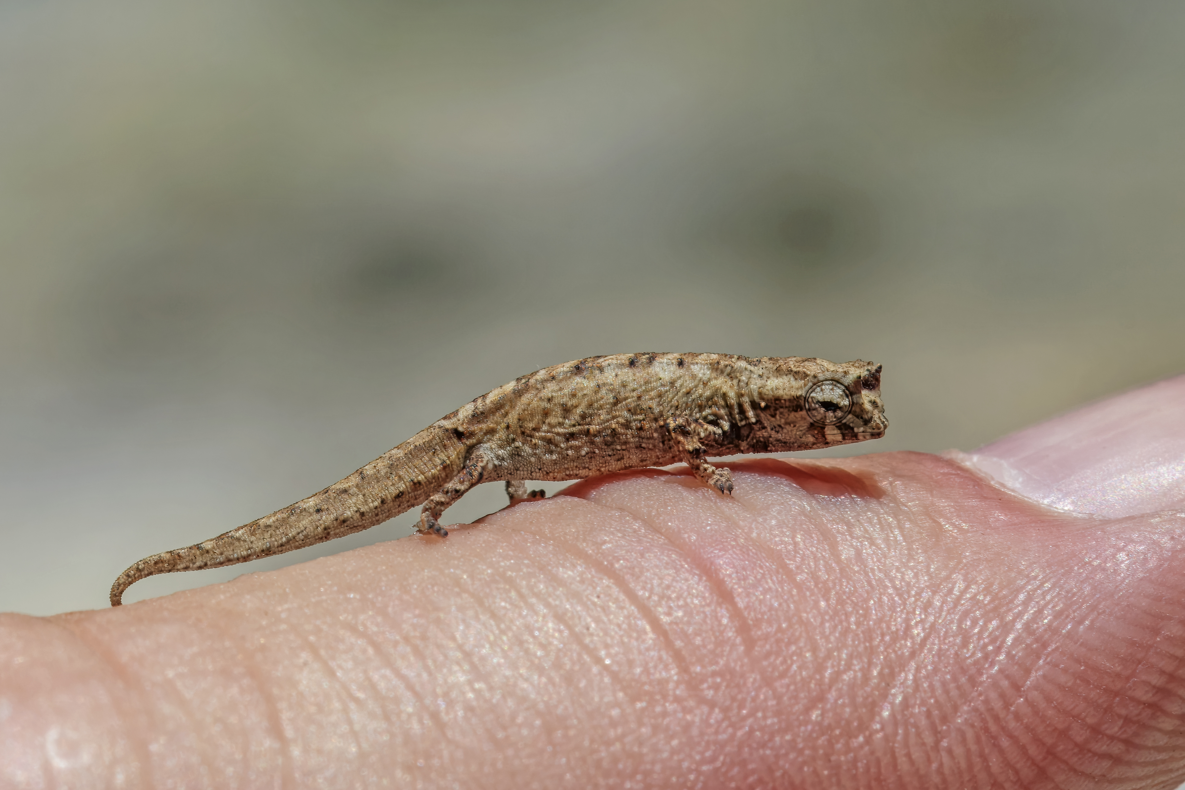 Montagne d'Ambre leaf chameleon (Brookesia tuberculata) on male adult finger, Montagne d'Ambre, Madagascar